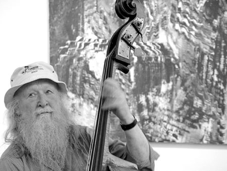 Hugo Rasmussen